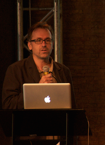 Font designer Martin Majoor in 2010